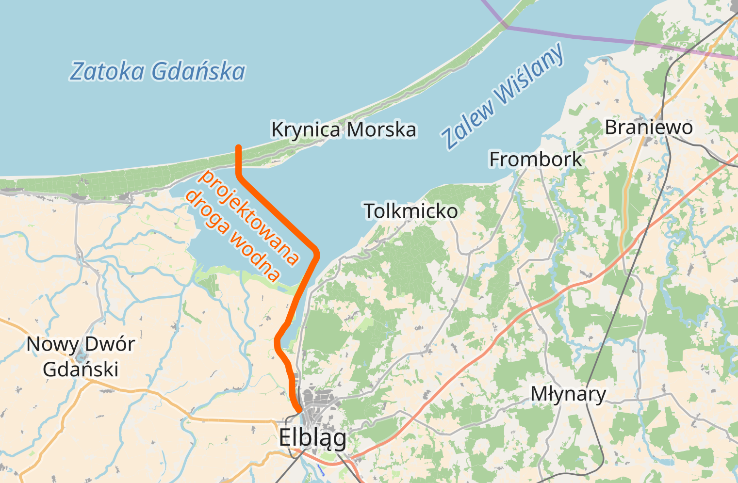 Map of a proposed waterway connecting Elbląg with Gdańsk Bay through Vistula Lagoon and Vistula Spit. Depicted is the Nowy Świat variant. Proposed waterway connecting Elbląg with Gdańsk Bay through Vistula Lagoon and Vistula Spit This map of western part of Vistula Lagoon was created from OpenStreetMap project data, collected by the community. This map may be incomplete, and may contain errors. Don't rely solely on it for navigation.